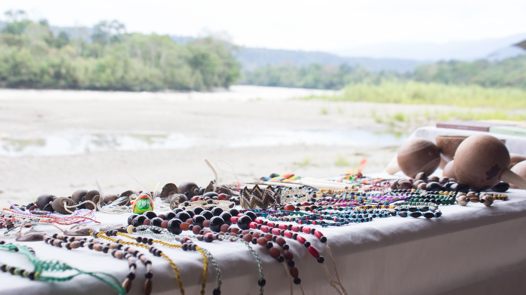 Joyas hechas a base de semillas y fibras.